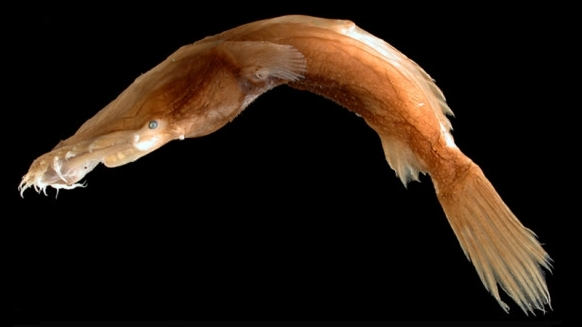 Cut-out from original shown below